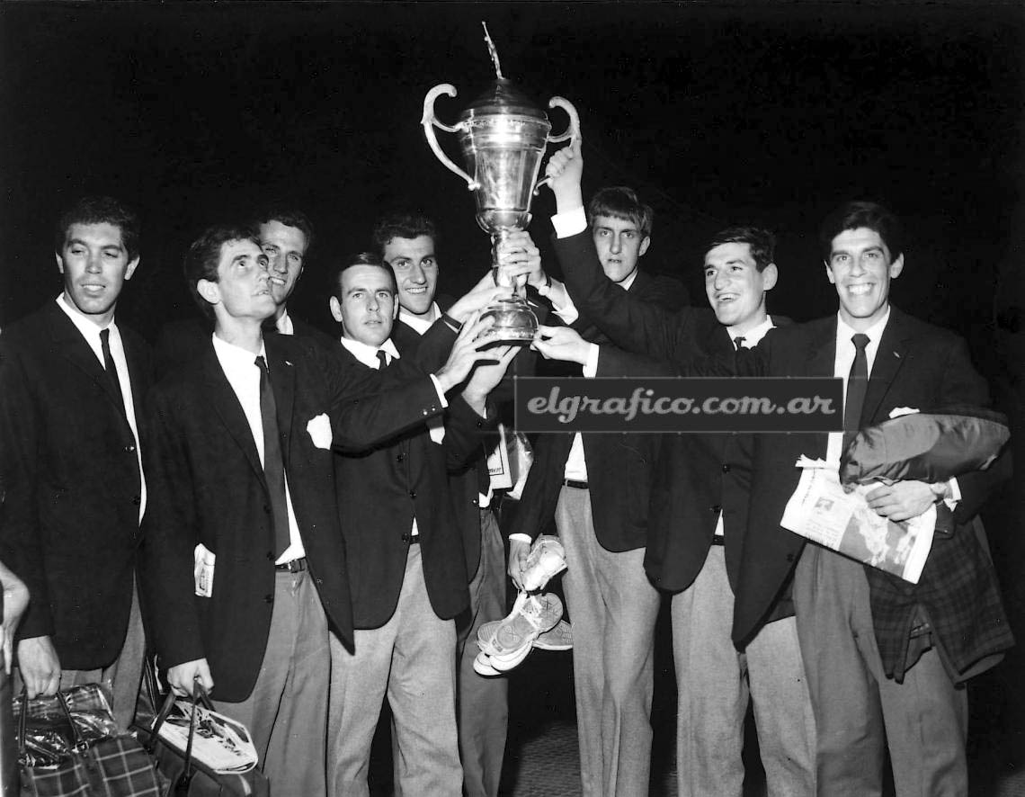 Players of Argentina basketball national team with the trophy won at Campeonato Sudamericano.